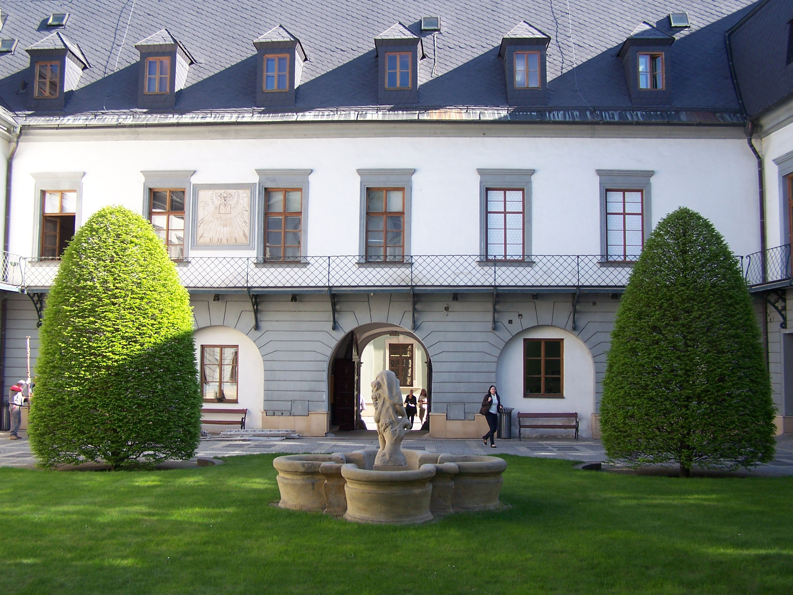 Philosophical Faculty of the Palacký University in Olomouc, Czech Republic